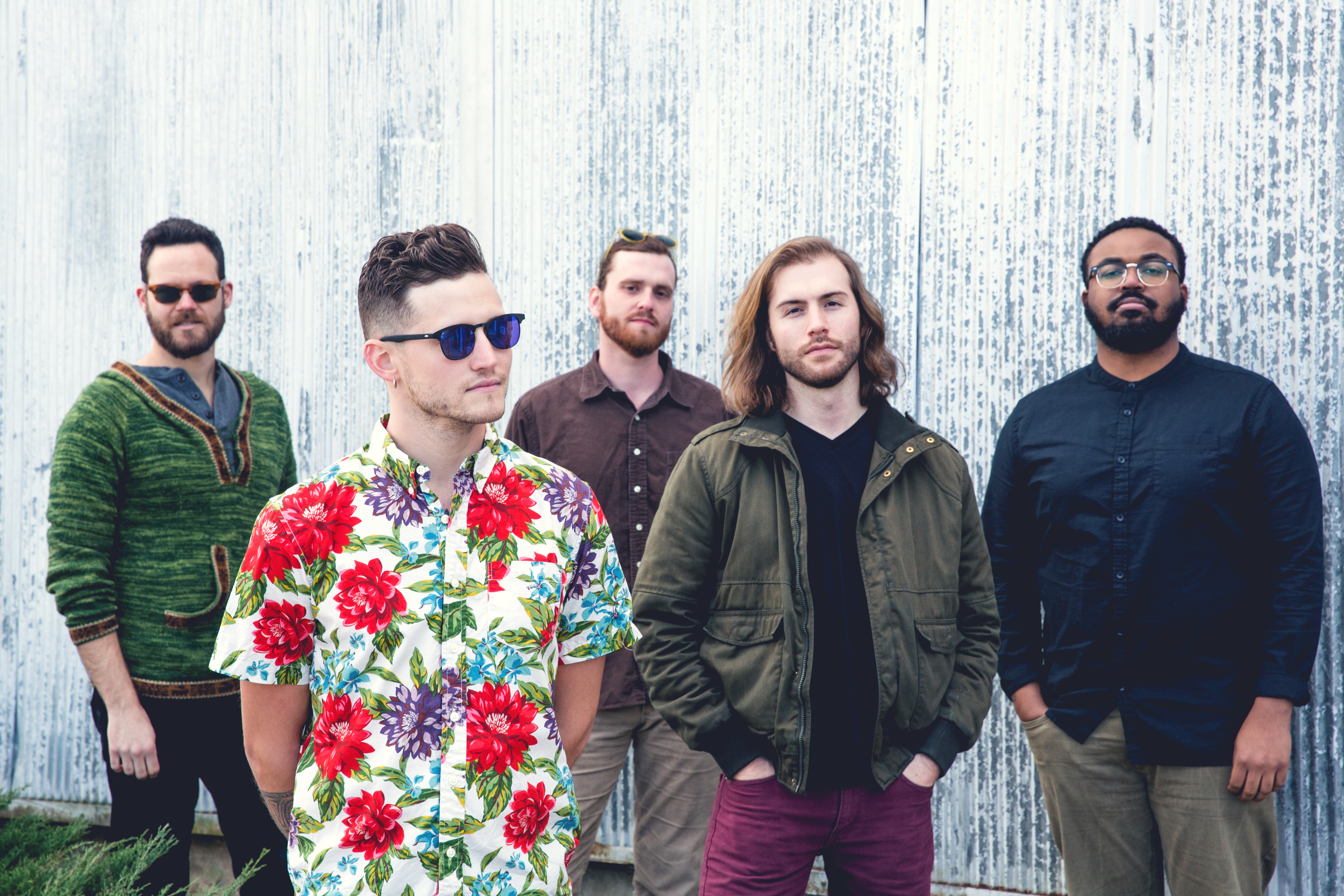 Band photo of The Delta Saints, taken in Nashville, TN.